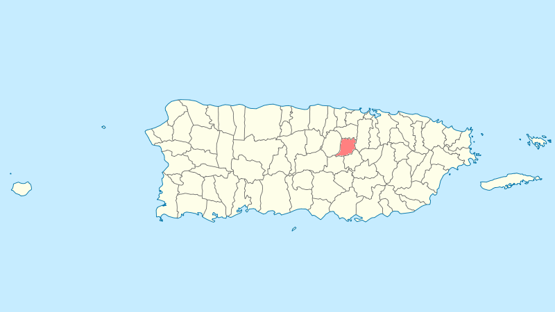 Municipal locator of Puerto Rico